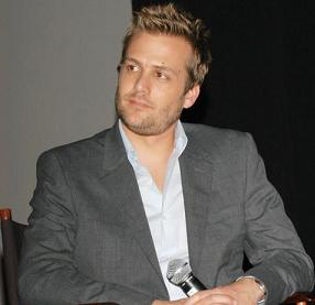 Picture I took of Gabriel Macht at a question answer from A Love Song for Bobby Long. depicted person: Gabriel Macht (age: 32.37)